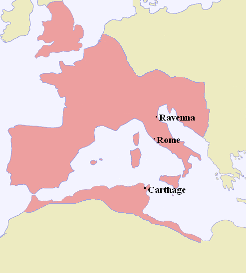 Original came from Wikicommons, author allows the use of the image for any purpose. This image is an improvement of the original. Names have been translated into English.